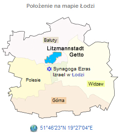 Location of the destroyed Ezras Israel Synagogue in Łódź in relation to the Litzmannstadt Ghetto. Ghetto area in blue